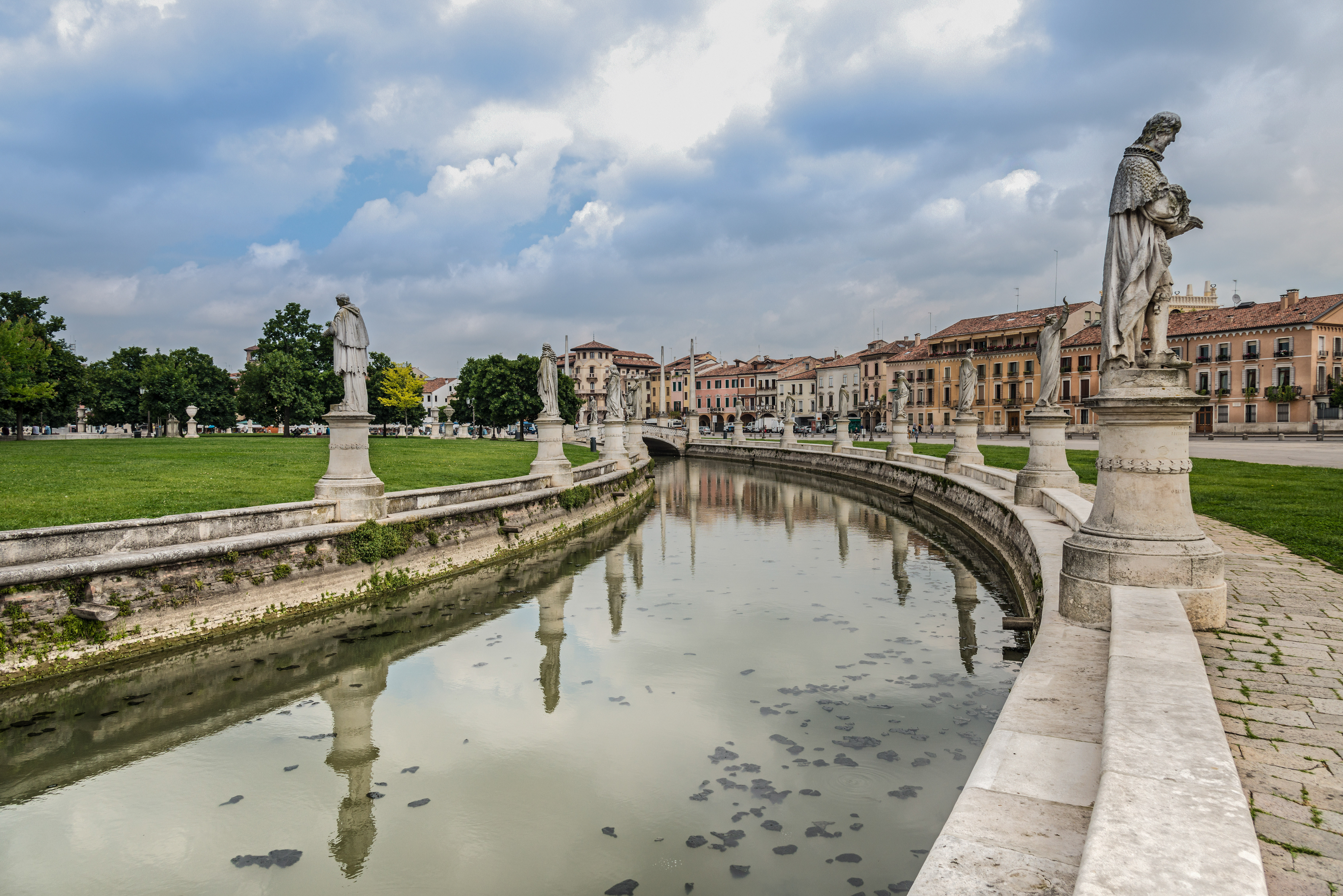 View Prato della Valle in Padua. View on the channel that include the isle (Isola Memmia)